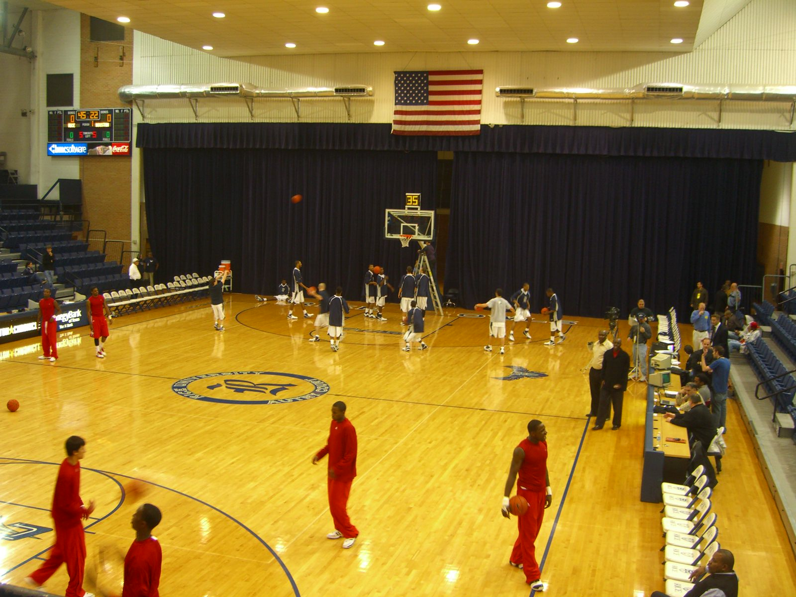 Photo by Nick Juhasz.